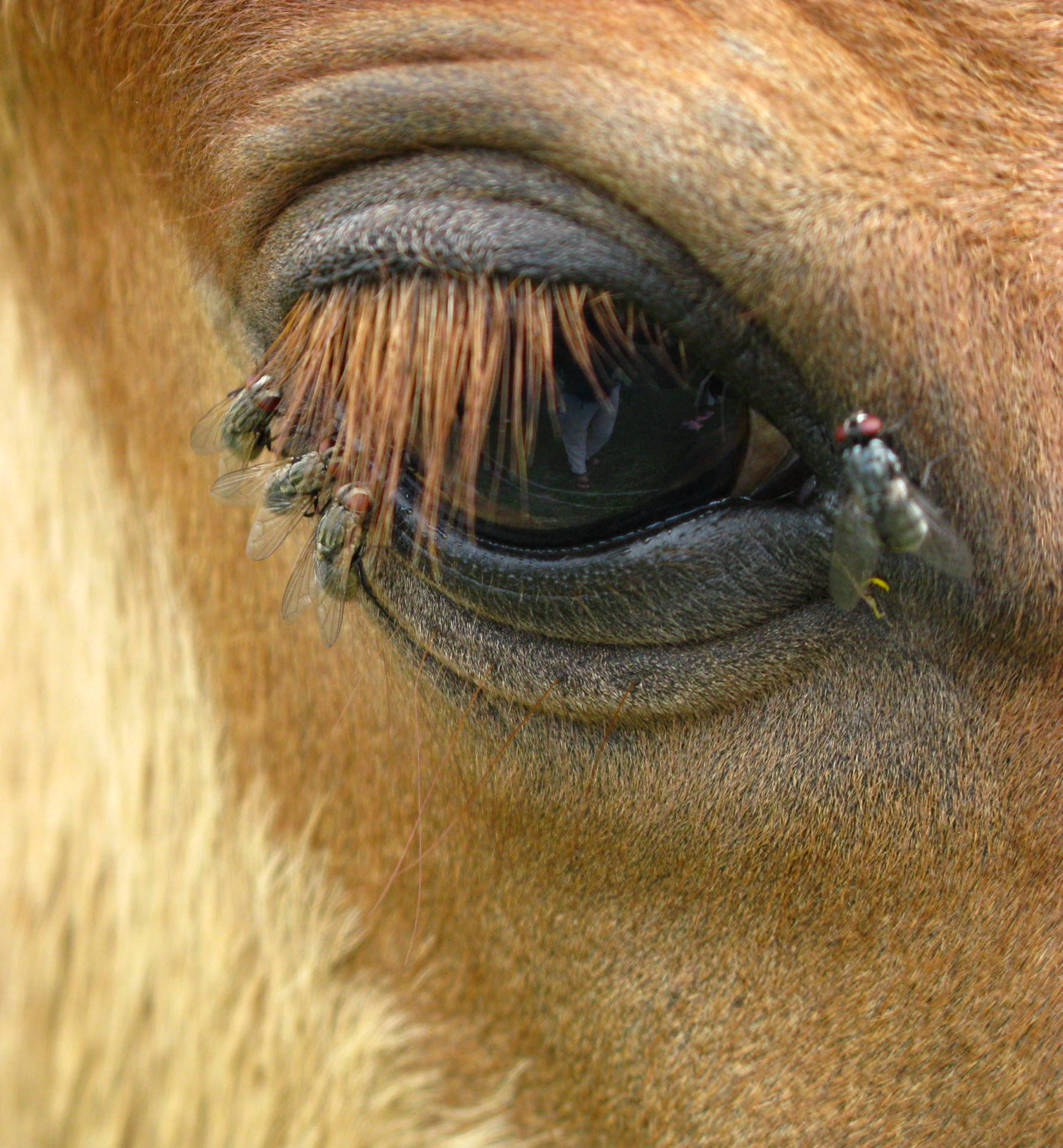 Four flies on a horse eye.